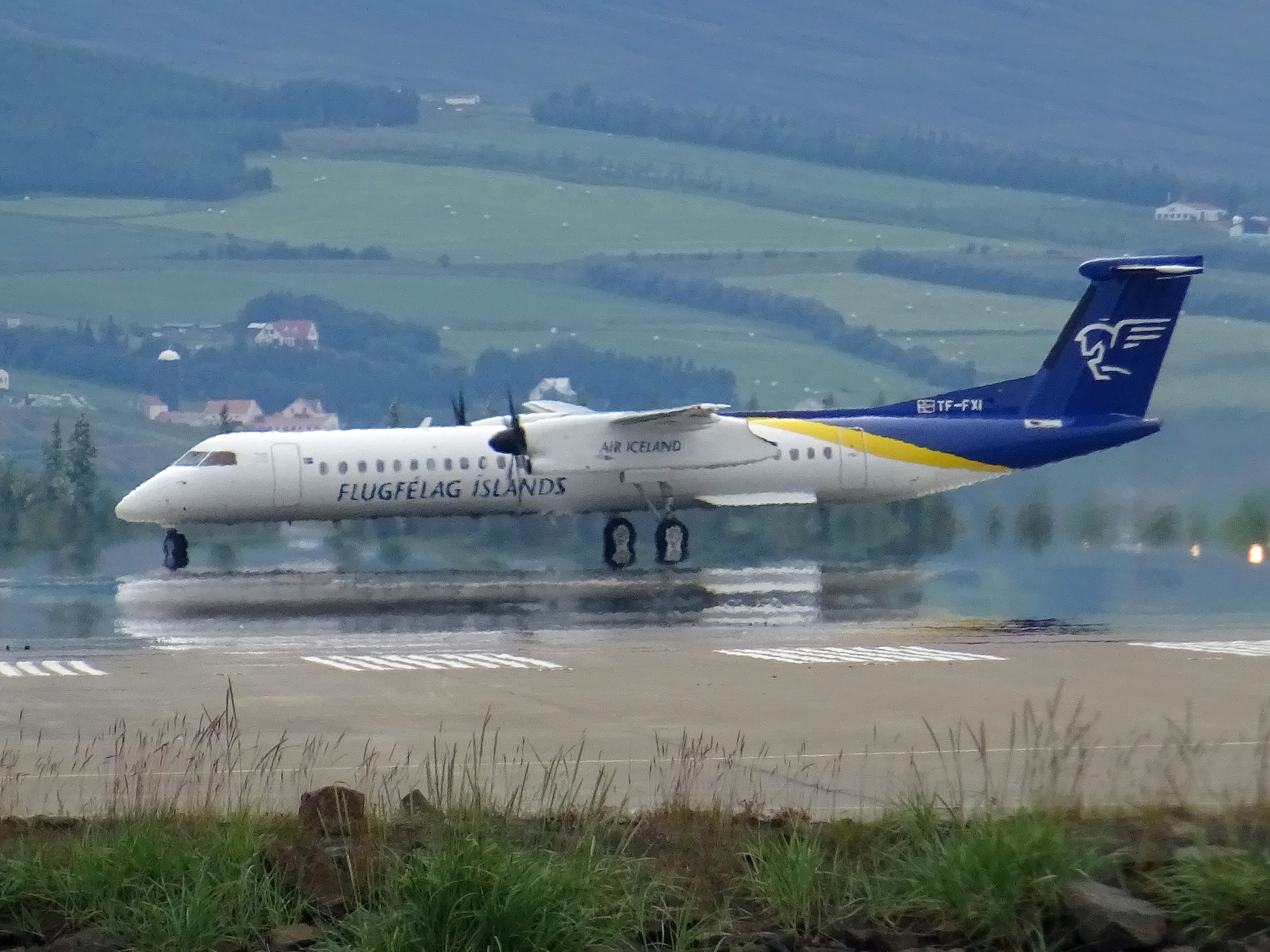 MSN 4033 DASH 8 / DHC-8 402 AIR ICELAND CONNECT AEY AIRPORT EX SAS AS LN-RDM / FLYBE AS G-ECOV / COLGAN AIR AS N33WQ / AIR NIUGINI AS P2-PXQ STORED 11/07 TO 07/08 AND 06/12 TO 12/12 AND 08/15 TO 02/16